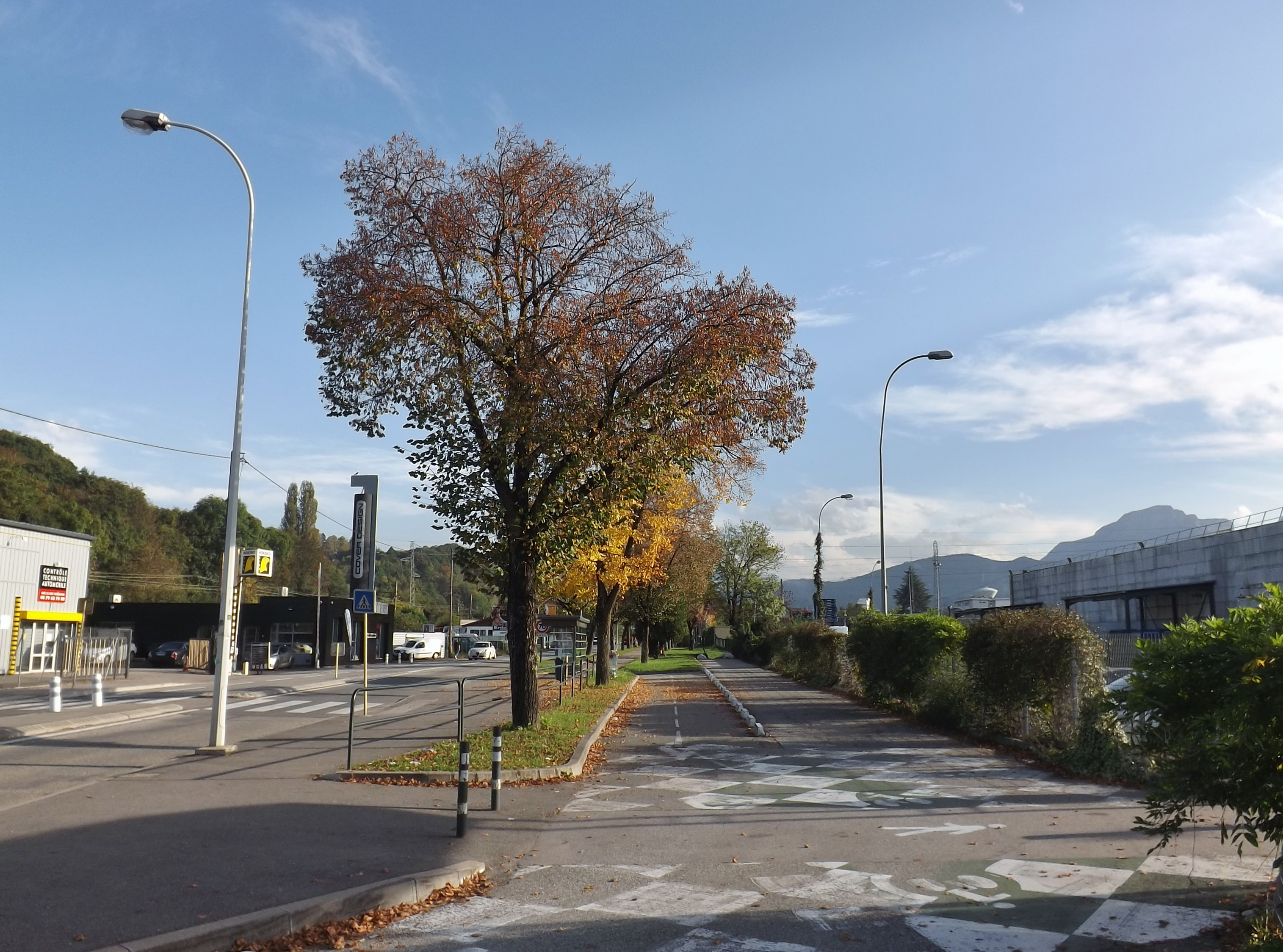 Sight of the Landiers commercial zone, in Chambéry, Savoie, France.